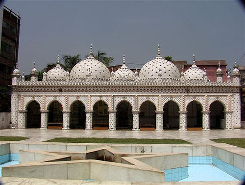 Photo of Tara Masjid or the Star Mosque, Dhaka, Bangladesh